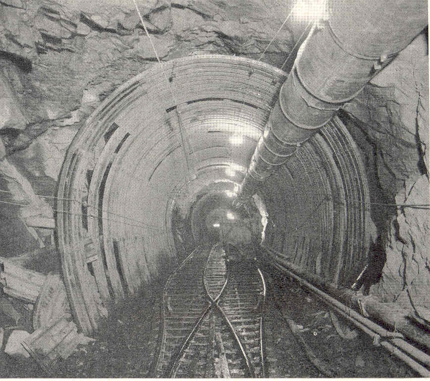 The conduit tunnel for TVA's Ocoee Dam No. 3 in Polk County, Tennessee, USA.